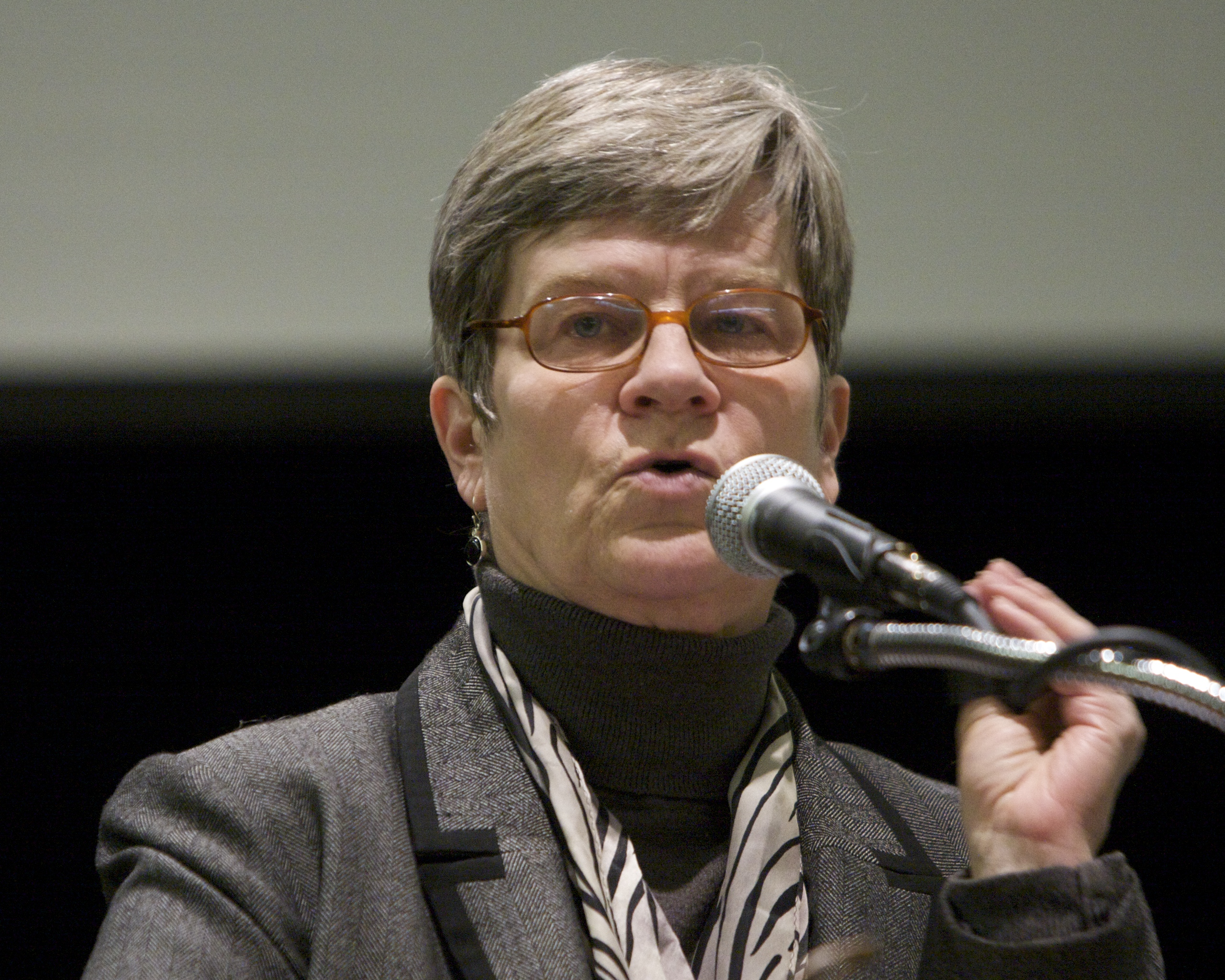 Keynote address by Kathleen Hall Jamieson, Ph.D, Director of the Annenberg Public Policy Center at the University of Pennsylvania - “From Phonographs to Facebook: How Media Shape the Rhetoric of Presidents and Those Who Aspire to the Job”